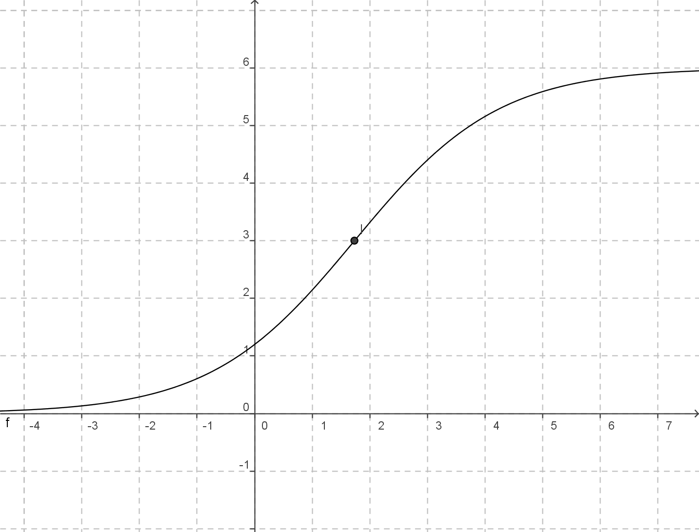 logistic function f(x)=6/(1+4exp(-.8x))